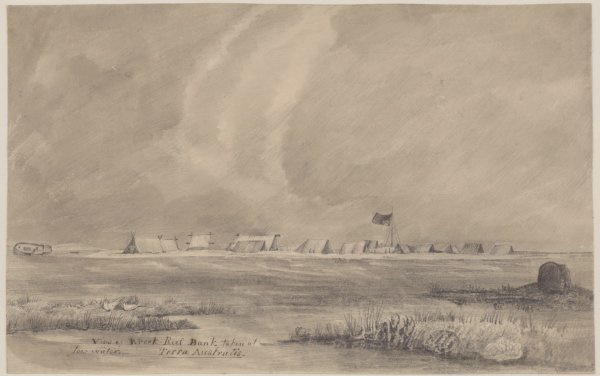 This is a digital image of a pencil and wash ; 14.1 x 22.2 cm., by William Westall, 1781-1850. It depictsand is titled, "View of Wreck Reef bank taken at low water, Terra Australis ". Part of a collection of Westall's drawings. Notes at NLA Preliminary drawing for an original oil by the same title in the National Maritime Museum, Greenwich.